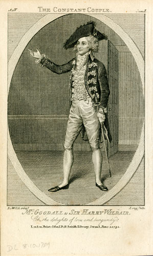 Charlotte Goodall as Sir Harry Wildair in the Geo Farquhar Constant Couple